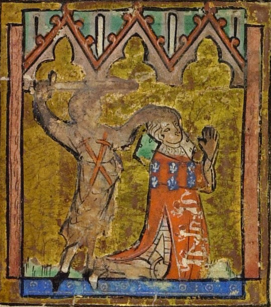 Thomas Plantagenet, 2nd Earl of Lancaster